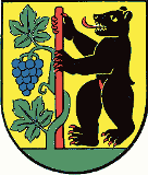 Blazon of Berneck, Canton of St. GallenEsperanto: Blazono de Berneck, Kantono de Sankt-Galo